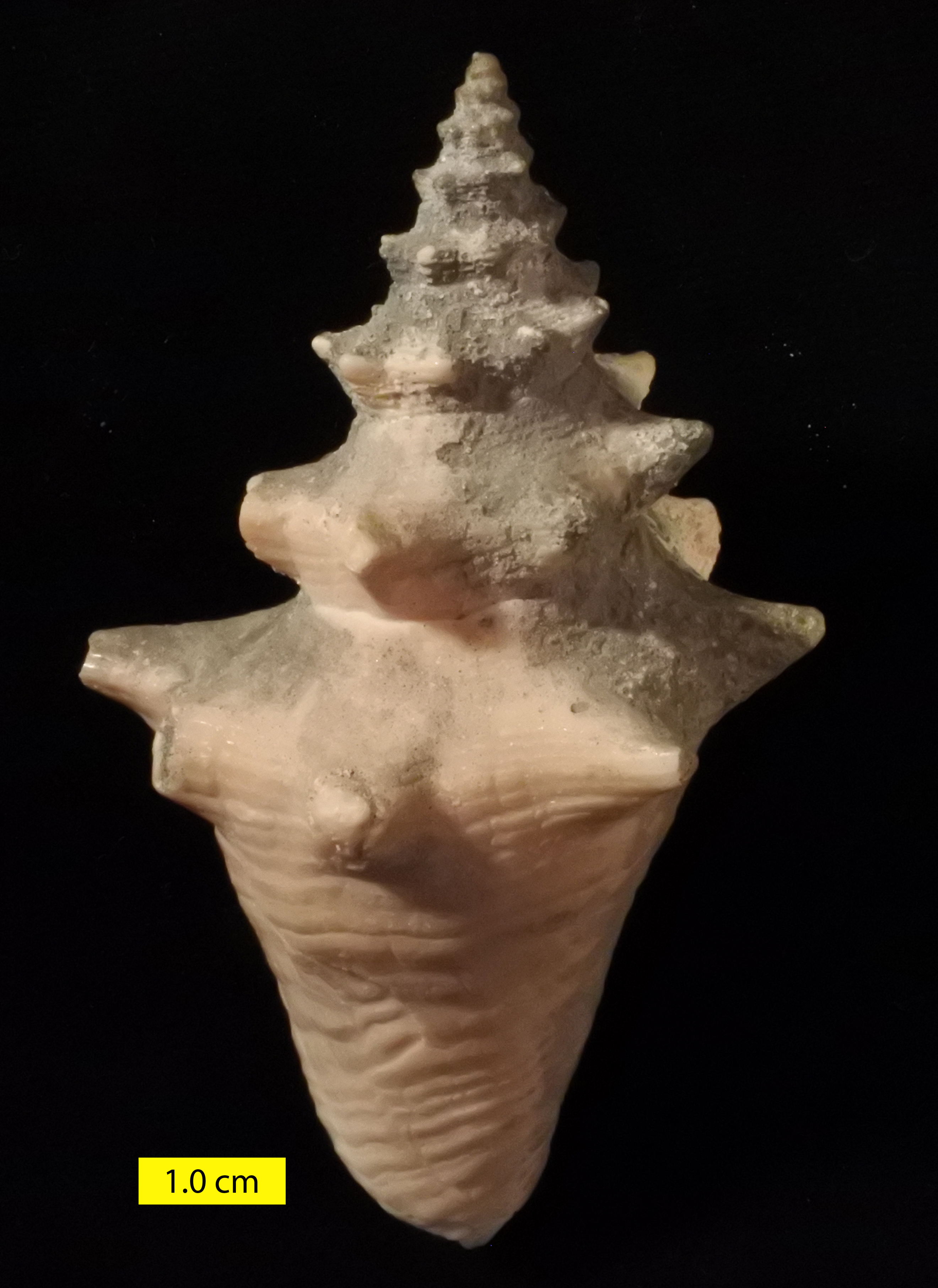 Lobatus gigas from the Pleistocene (Eemian) of Great Inagua, The Bahamas.